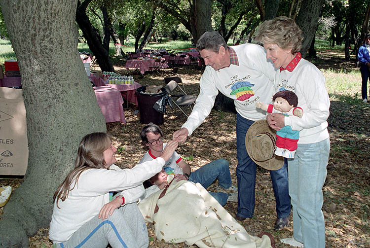 4/18/1987 President Reagan and Nancy Reagan holding a Cabbage Patch doll during a trip to Santa Barbara California and a visit to Camp Ronald McDonald for Good Times at Rancho La Scherpa